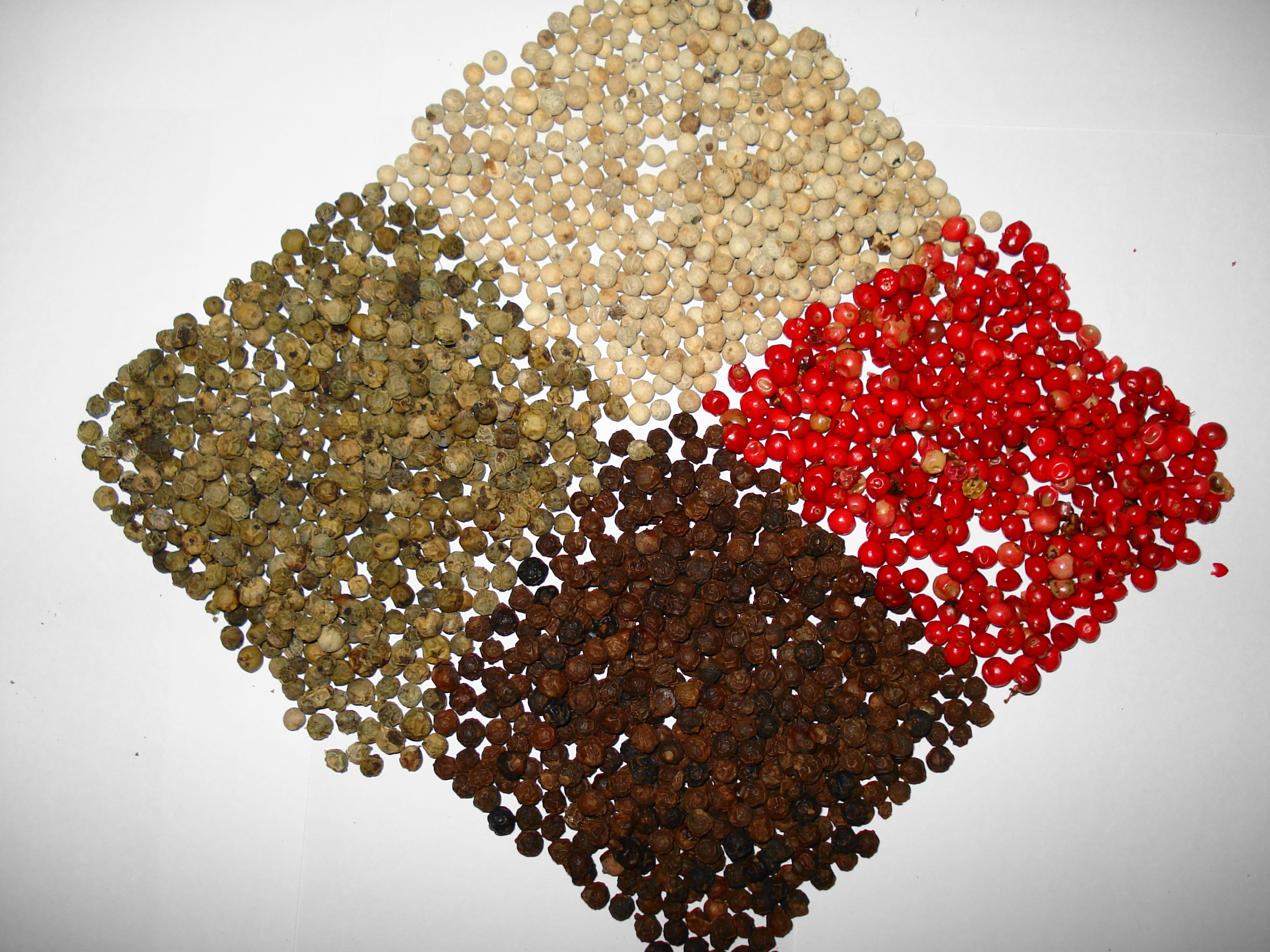 pepper, piper nigrum is the source of green,black, white, pink and yellow. All the colors of the pepper is from the same tree.Green color pepper obtained when picked fresh and pickled or dehydrated. when picked and left to ferment in the sun we get wrinkled black pepper. Pink or yellow color obtained when berries left to mature. when flesh of the matured berries soaked of we get white pepper .